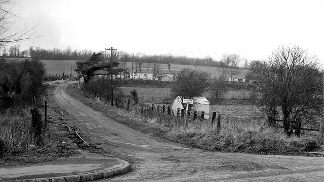 Barham Station (remains). View from the east to remains of Barham Station, which had been on the Elham Valley line from Canterbury to Shorncliffe. This line had an unusual history, as the line was taken over by the War Office (Army) on 1/12/40 to provide access to our big Cross-Channel guns, a public service, however, being maintained from Lyminge to Shorncliffe until 3/5/43 (goods until 1/10/47). It seems the station was made into a house, but from the scenes on Geograph of the location at the present day everything is completely transformed.